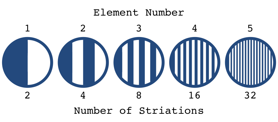 Figure demonstrating flow division in a static mixer